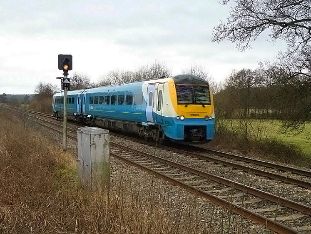 The Marches Line